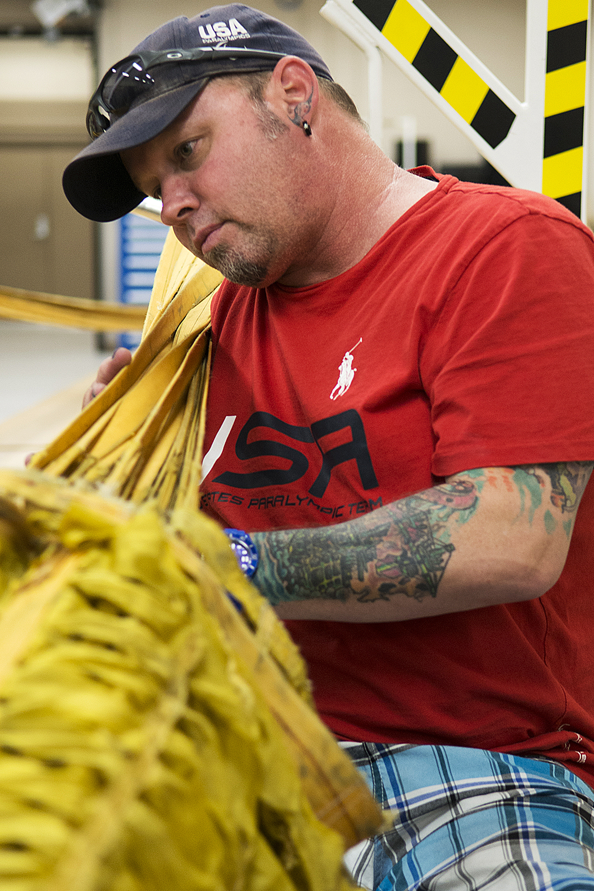 Patrick McDonald, U.S. Paralympic Curling Team captain, helps repack a B-52H Stratofortress drag chute chute during a tour of the 307th Operations Support Flight aircrew flight equipment shot, June 4, 2014, Barksdale Air Force Base, La. McDonald are part of the American300 Tours, which visits military installations with the goal of increasing resiliency of the troops, their families, and the communities that they live and operate in. (U.S. Air Force photo by Master Sgt. Greg Steele/Released)